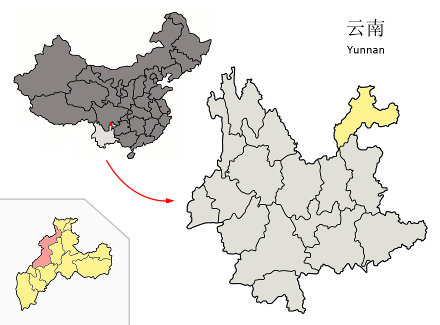 Location of Yongshan County (pink) and Zhaotong Prefecture (yellow) within Yunnan province of China Map drawn in september 2007 using various sources, mainly : Yunnan province administrative regions GIS data: 1:1M, County level, 1990 Yunnan Counties map from Zhaotong Prefecture administrative map from .au